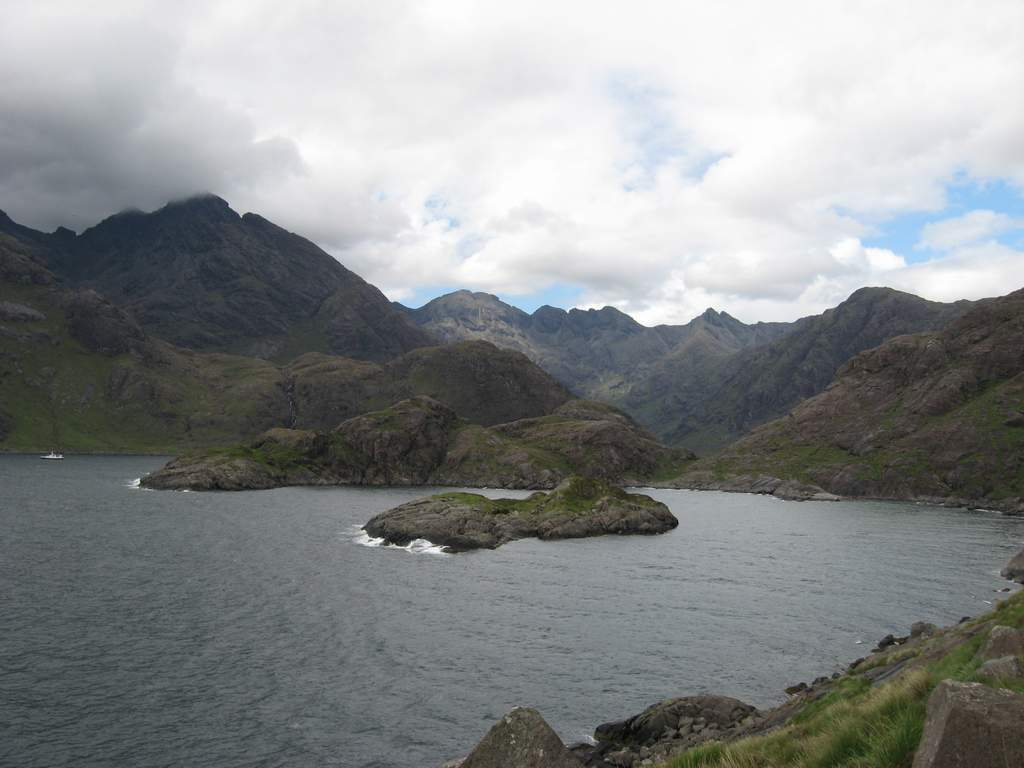 Cuillin Hills, Isle of Skye, Scotland, UK